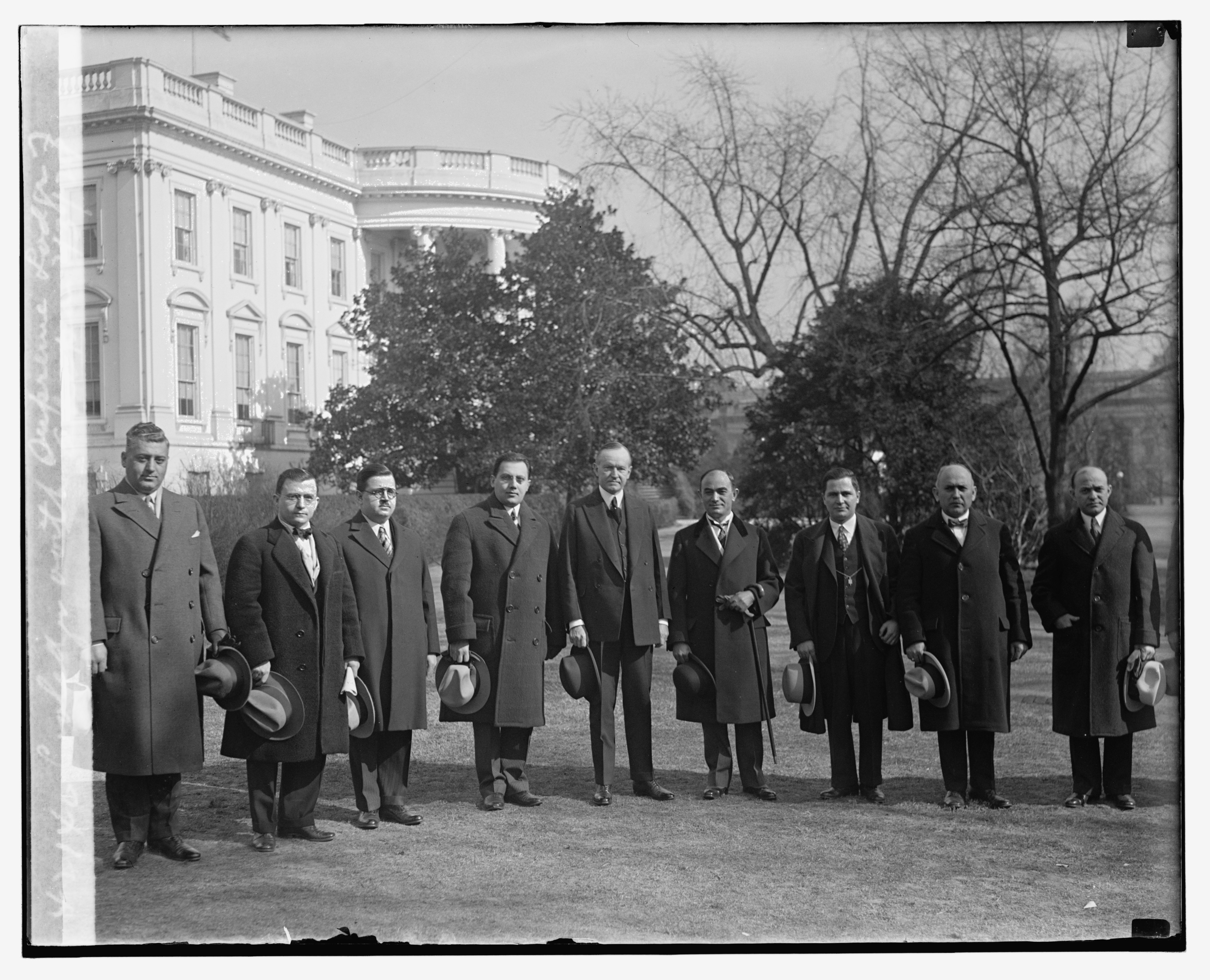 Title: Coolidge with Supreme Lodge of Ahepa, 2/3/29 Abstract/medium: 1 negative : glass ; 4 x 5 in. or smaller